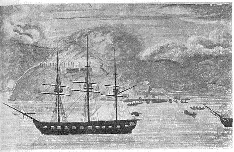 The destruction of Pomare's Pa. H.M.S. "North Star" in the foreground. Pomare was detained as a prisoner on board this ship. The destruction of the fortified village was carried out by detachments of the 58th and 96th Regiments.